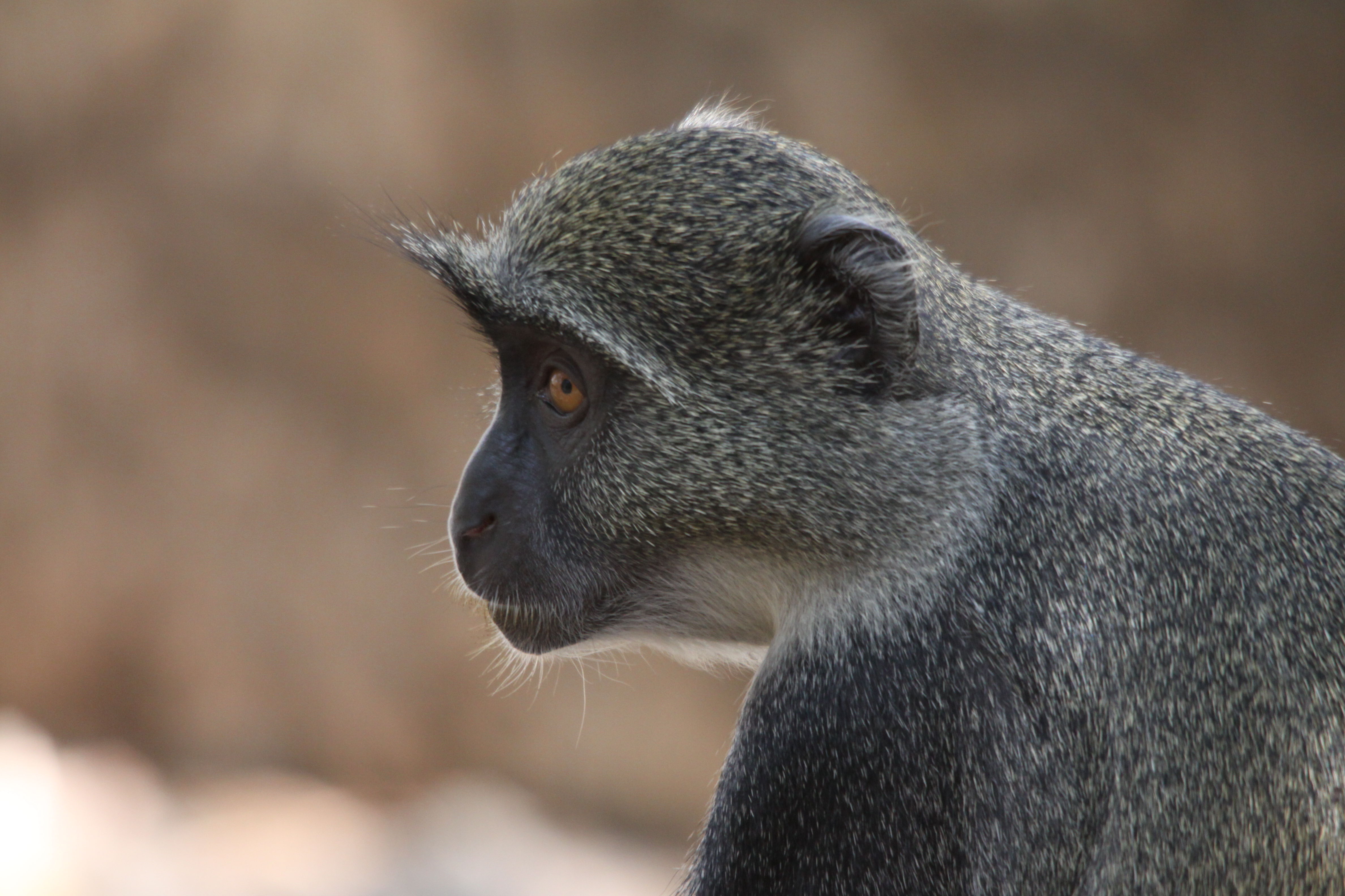 Monkey in Ethiopia